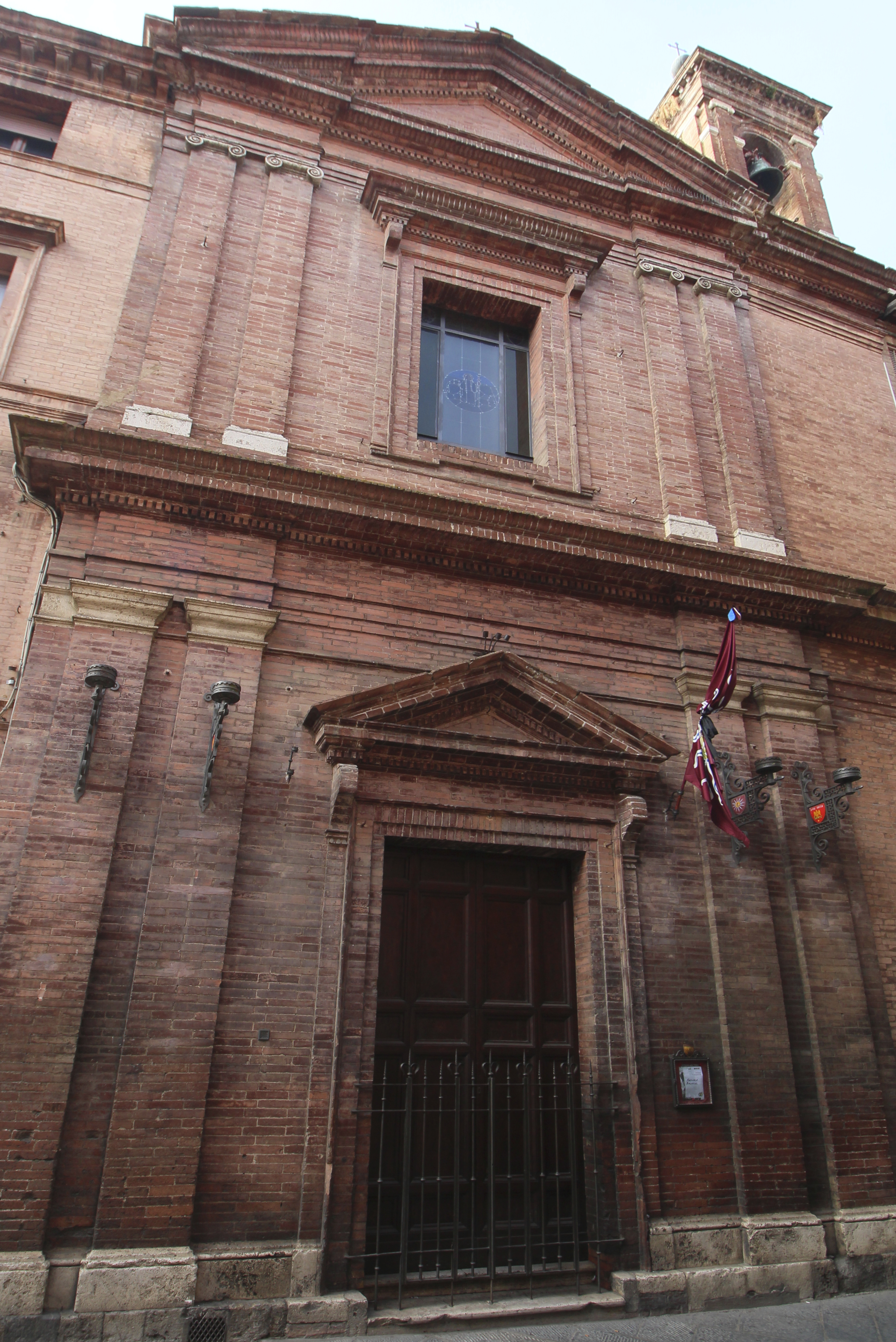 San Giacomo, church in Siena, Contrada church of Torre, Via Salicotto, Terzo di San Martino, Siena, Province of Siena, Tuscany, Italy